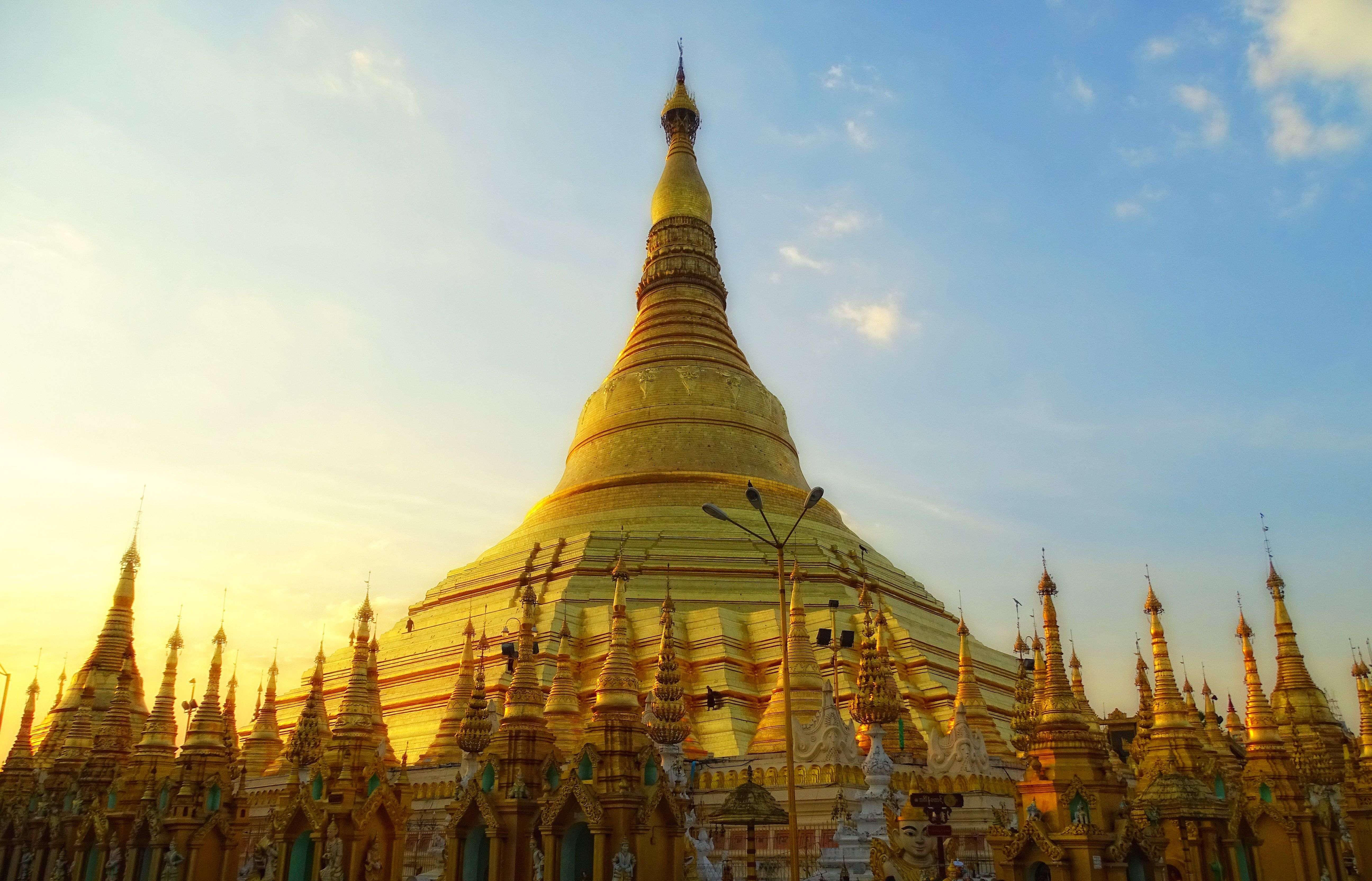 The south-eastern side of Shwedagon Pagoda. A monk is walking on the facade, demonstrating the large scale of the stupa.